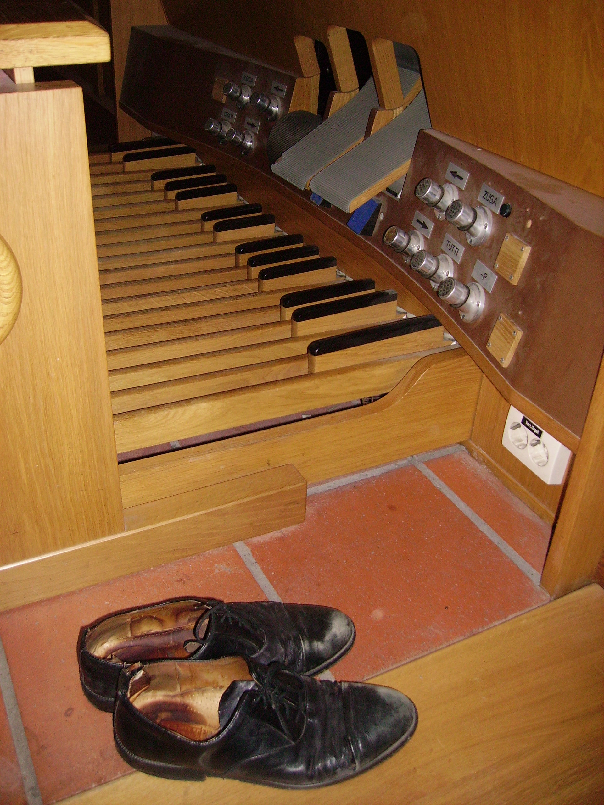 Description: pedals of the organ of Gedächtniskirche (Memorial Church) in Speyer, Germany Source: own photography Date: November 2005 Author: --Immanuel Giel 12:00, 7 November 2005 (UTC) Other versions: none Note: The filename is misleading. Obviously, these are not manuals, but pedals.